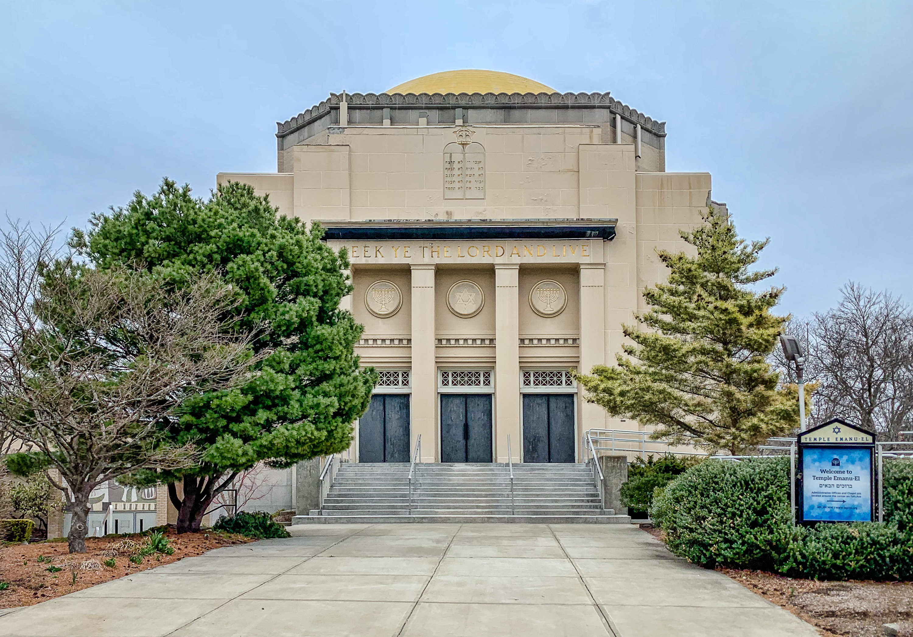 Temple Emmanuel, at Morris and Sessions Streets, Providence Rhode Island